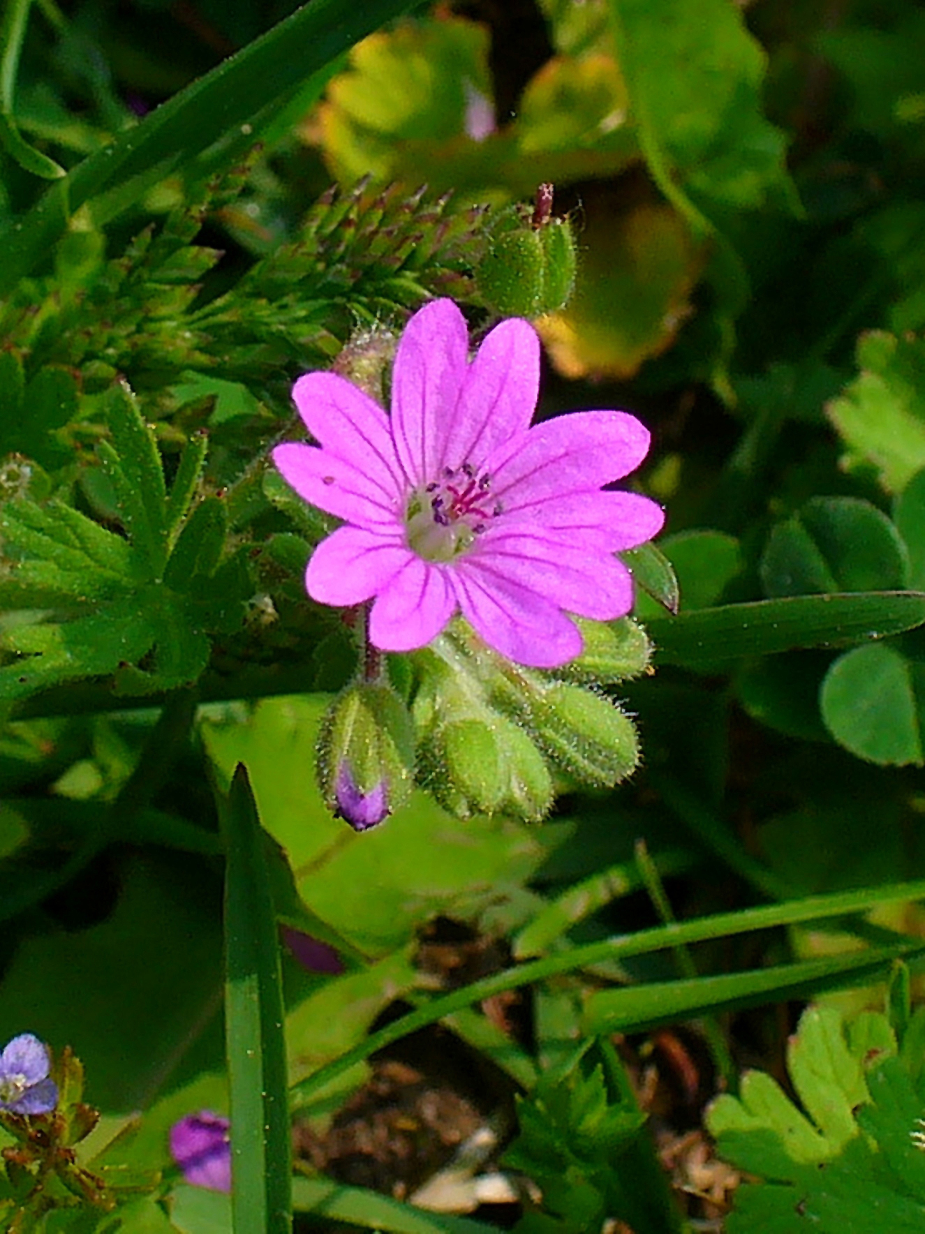 Geranium molle, Geraniaceae, Dovesfoot Cranesbill, Dovefoot Geranium, Awnless Geranium, flower; Karlsruhe, Germany.